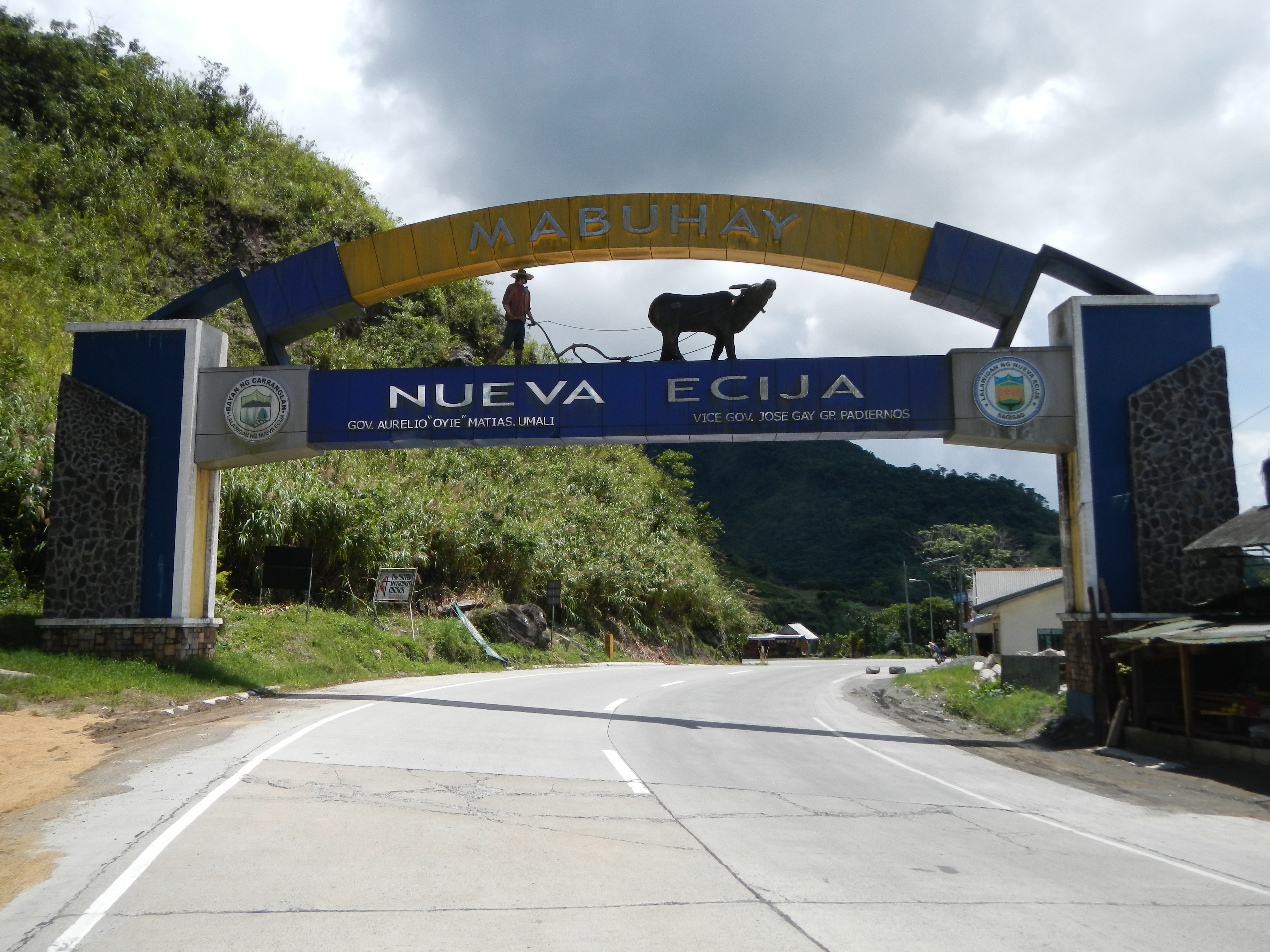 UploadWizard photos -- (General description, 3-dimension angle by angle photography of this town, church & landmarks) -- Welcome Arch of Nueva Ecija [1] - (simply amazing scenery of greens, blue mountains, of Boundary Barangays of Capintalan, Carranglan, Nueva Ecija [2] [3] and Dalton formerly Balete, Santa Fe, Nueva Vizcaya [4] [5] located along Daang Maharlika or Cagayan Valley Road or Pan-Philippine Highway [6] the only passageway that links the entire North East Luzon to Metro Manila and Central Luzon. Cagayan Valley [7]), beside the) & --- Battle of Balete Pass - Dalton Pass[8]( also called Balete Pass, is a zigzag road that joins the provinces of Nueva Ecija and Nueva Viscaya, Philippines. It is located at about 3,000 feet above sea level, where Caraballo Sur [9] meets the Sierra Madre. Being the only access between Central Luzon and Cagayan Valley, the pass became the scene of much bloody fighting during the final stages of World War II and bore witness to the death of almost 17,000 Japanese, American, and Filipino soldiers. It has a national shrine that gives honor to General James Dalton II [10] Congress approves Balete pass national shrine House bill number 3303 - Proclamation No. 653, the Battle of Balete pass commemorated from May 10 to 13, Balete Pass national shrine shall be under the military shrines service of the Philippine Veterans Affairs Office (PVAO).Memorial Balete , Dalton Pass [11] [12] [13]).